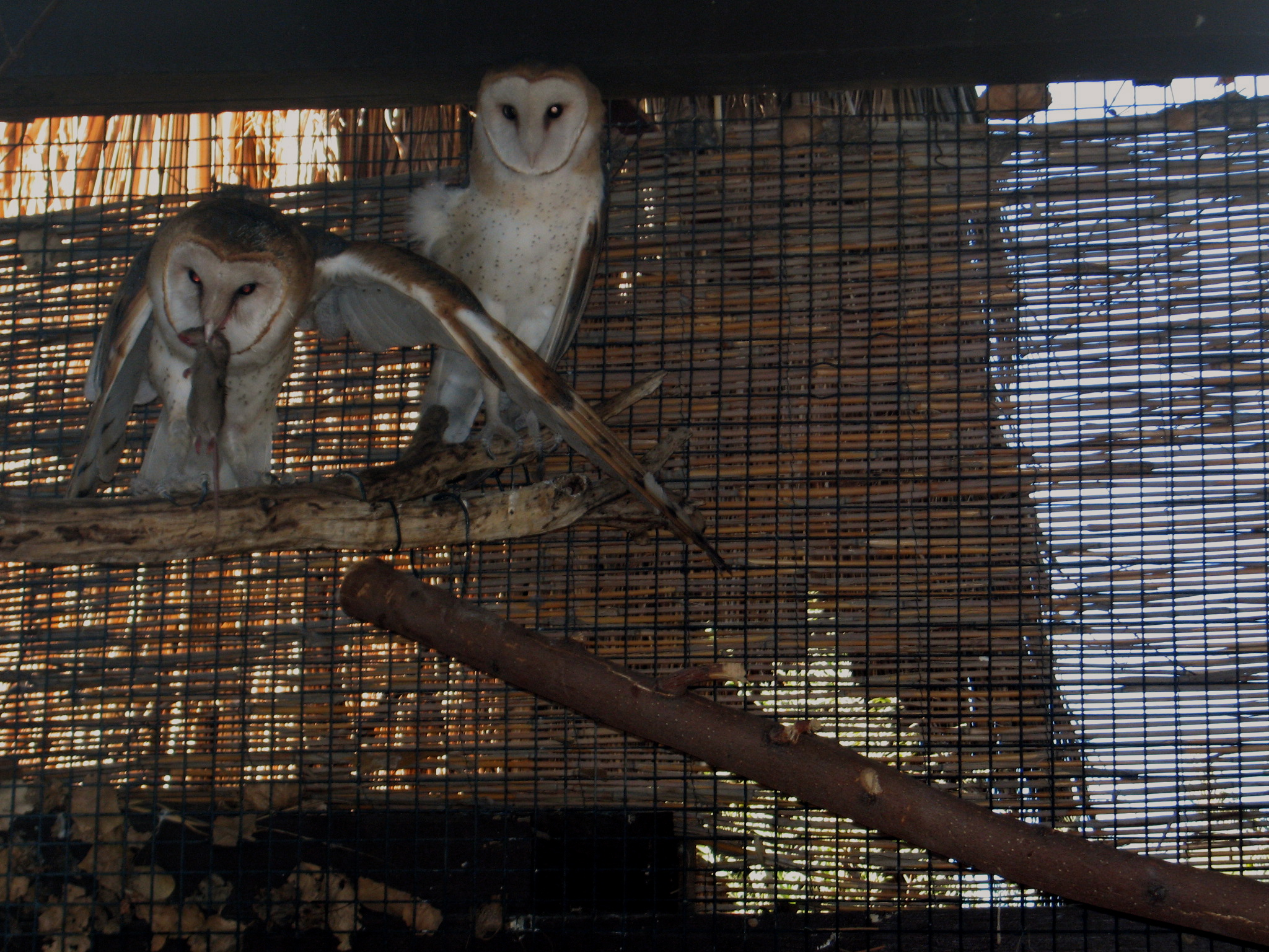 Barn owls eating mice at the living Desert Zoo in Palm Desert, CA.Dsyrengelas 05:46, 19 January 2007 (UTC)